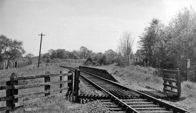 Blaenplwyf Halt (remains). Near to Abermeurig, Ceredigion/Sir Ceredigion, Great Britain. View SE, towards Lampeter. This very remote Halt on the Lampeter - Aberayron branch - Blaenplwyf is not even marked on the 1:50,000 map, was closed 12/2/51. The branch passenger service was withdrawn on 10/9/51; the goods service was cut back from Aberayron to Felin Fran on 5/4/65, finally from there as recently as 1/10/73.